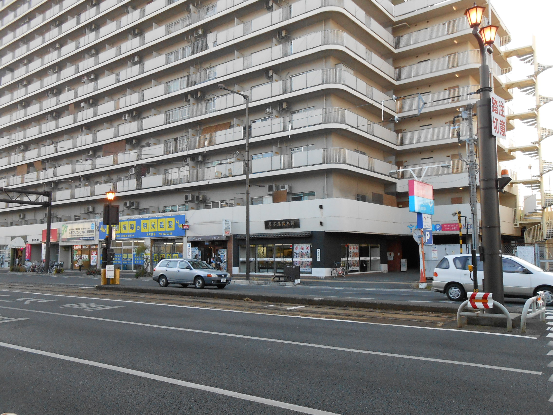 Iyo RailWay Honmachi Line Honmachi 6 Chome Station in Matsuyama City, Japan